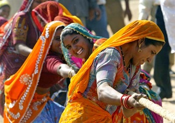 Rajasthani women take part in tug of war game at Pushkar fair, in India's desert state of Rajasthan, November 15, 2005. Many international and domestic tourists throng to Pushkar to witness one of the most colourful and popular fairs in India. Thousands of animals, mainly camels, are brought to the fair to be sold and traded.